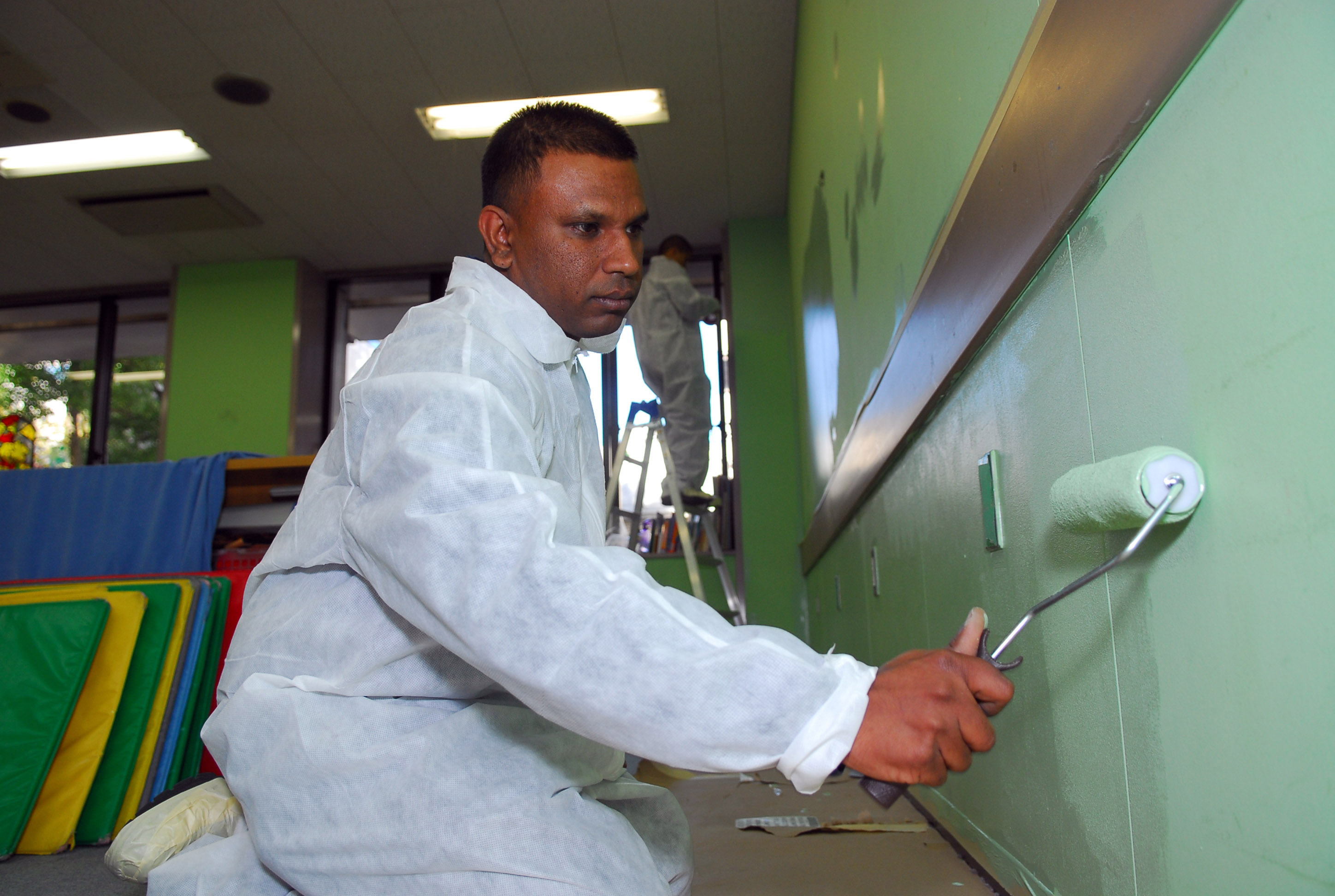 TOKYO (Dec. 7, 2008) Electrician's Mate 3rd Class Gyanand Sookham, from Queens, N.Y., assigned to the amphibious command ship USS Blue Ridge (LCC 19), paints a classroom during a community relations project at the Tokyo YMCA. Blue Ridge serves under Commander, Expeditionary Strike Group (ESG) 7/Task Force (CTF) 76, the Navy's only forward deployed amphibious force. (U.S. Navy photo by Mass Communication Specialist Seaman Charles Oki/Released)